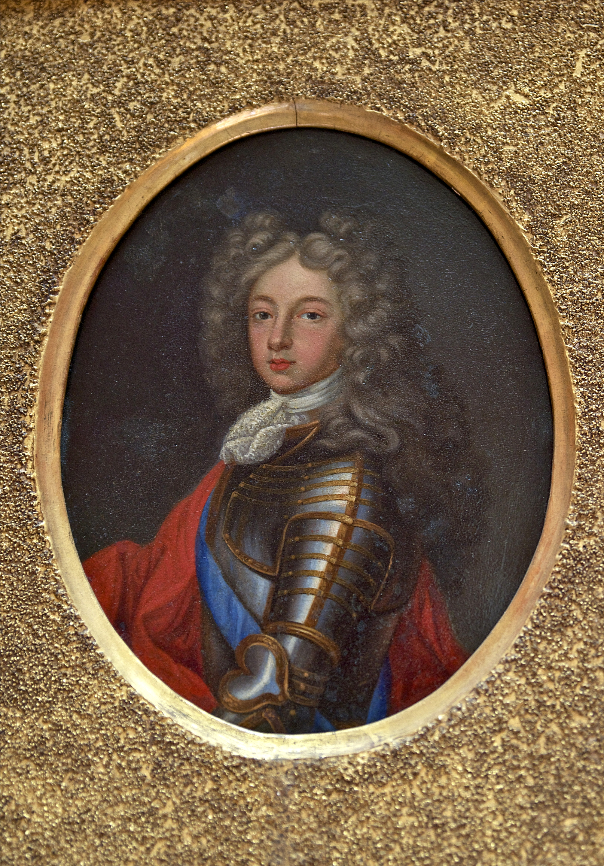 armoured small portrait of young Philip, duke of Anjou, grand-son of Louis XIV of France, before he was chosen as king Philip V of Spain